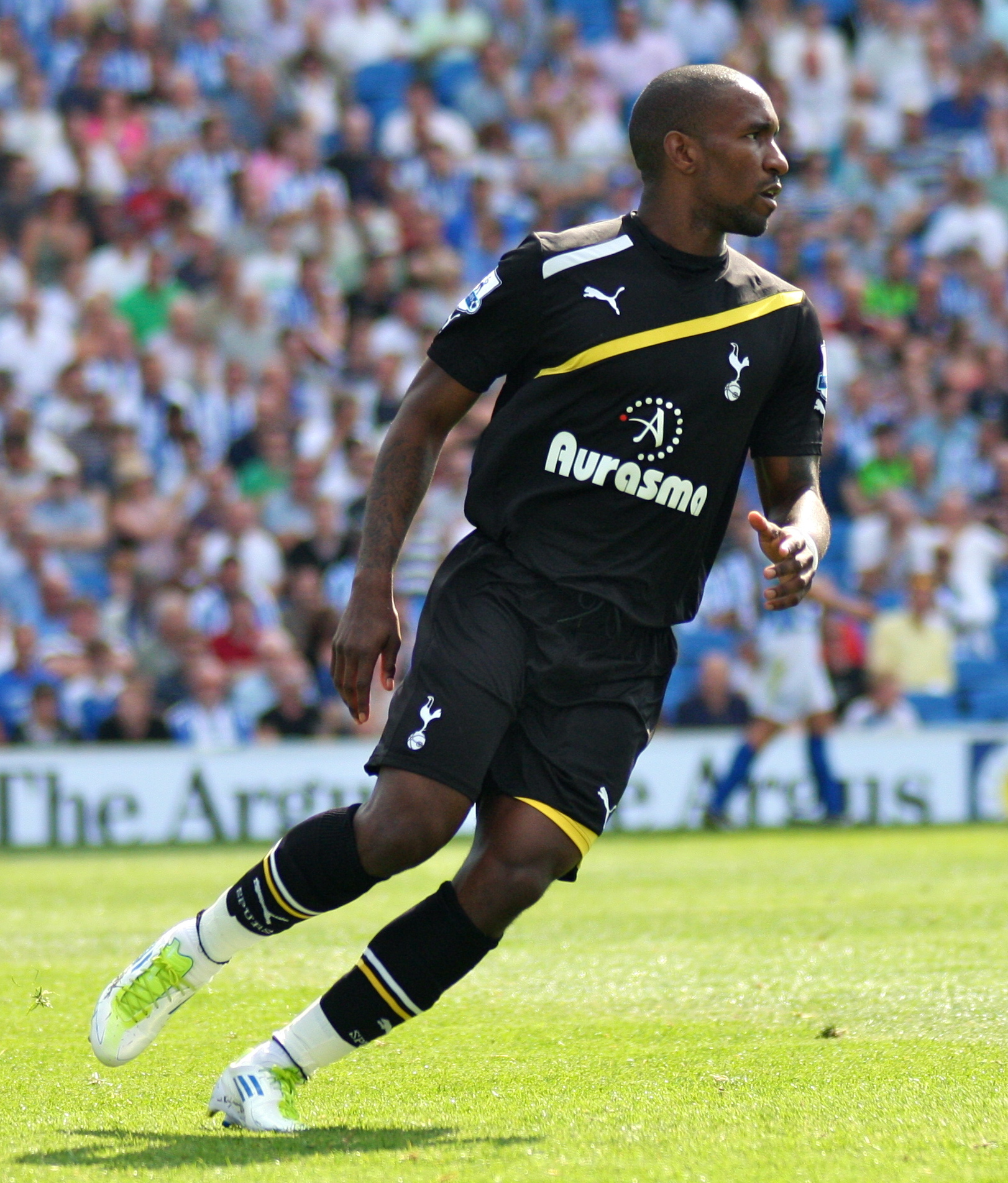 Jermain Defoe of Tottenham in July 2011.